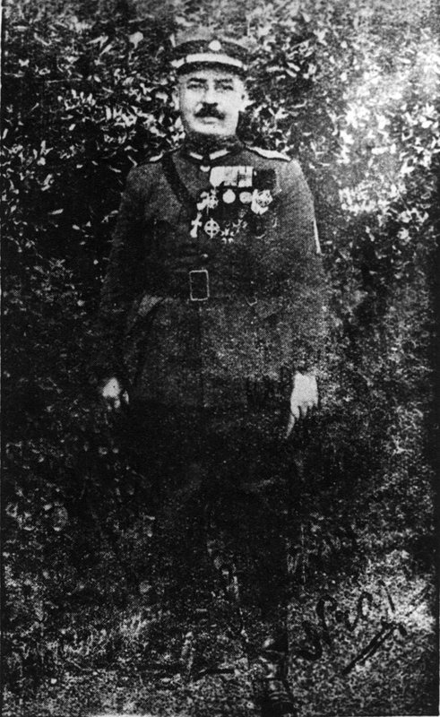 Greek army officer Vlasios Tsiroyanis